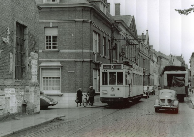 Tramway D in the Our Lady Street in Courtrai/Kortrijk.